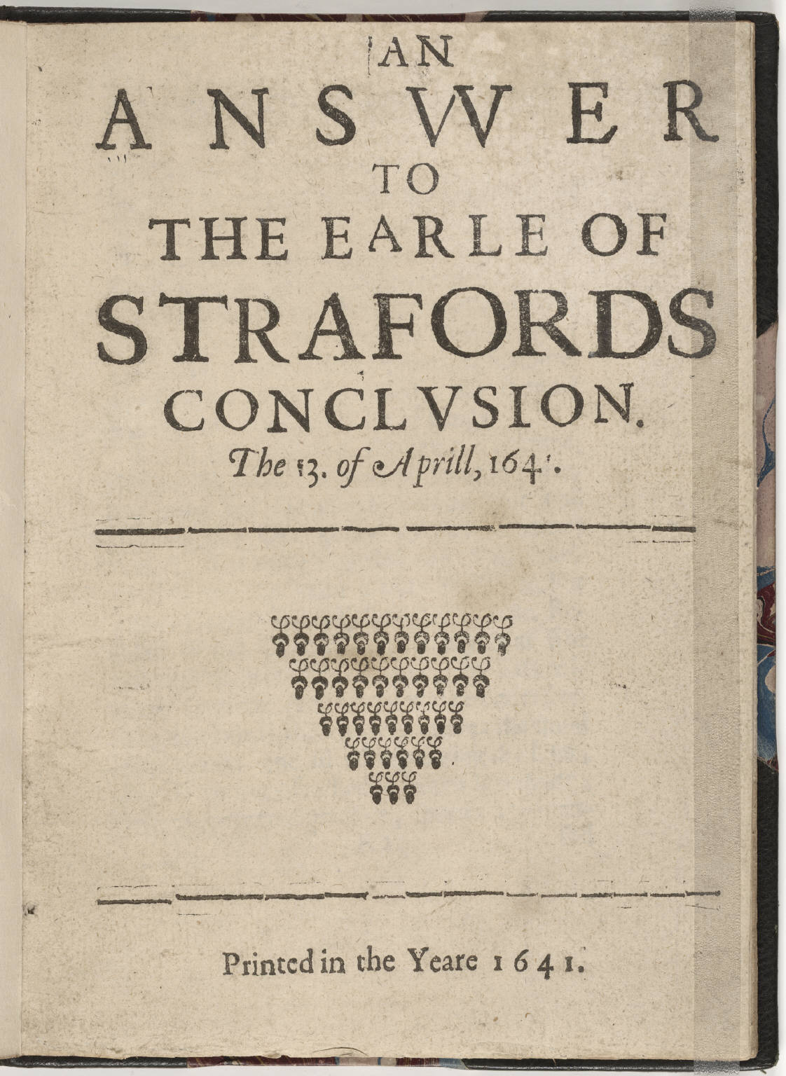 "An Answer to the Earle of Stafords Conclusion, the 13 of Aprill, 1641," printed probably at London, 1641. Image courtesy of the Beinecke Rare Book and Manuscript Library, Yale University.[1]